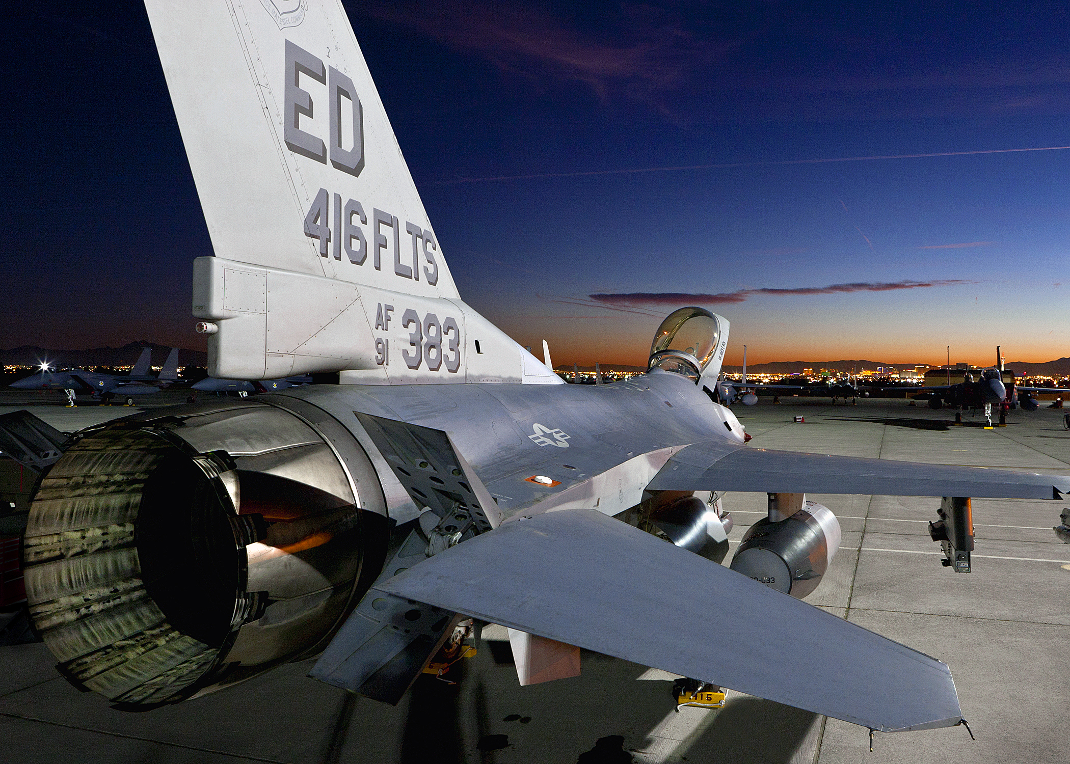 During Red Flag 12-2, a U.S. Air Force F-16 Fighting Falcon fighter aircraft from the 416th Flight Test Squadron (FLTS) rests before the backdrop of the nightlights of downtown Las Vegas.